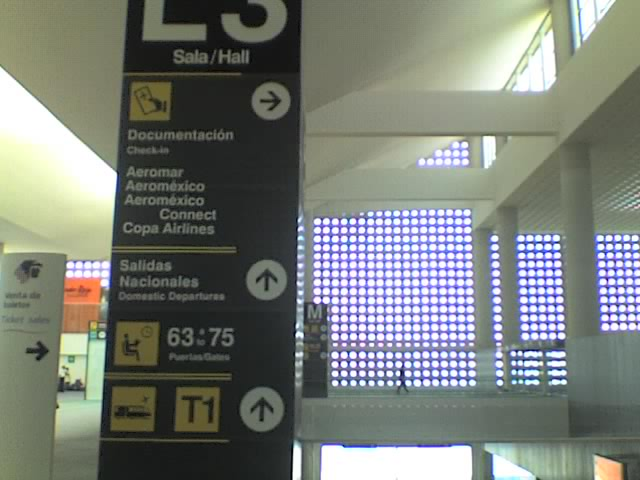 Terminal 2 of MEX